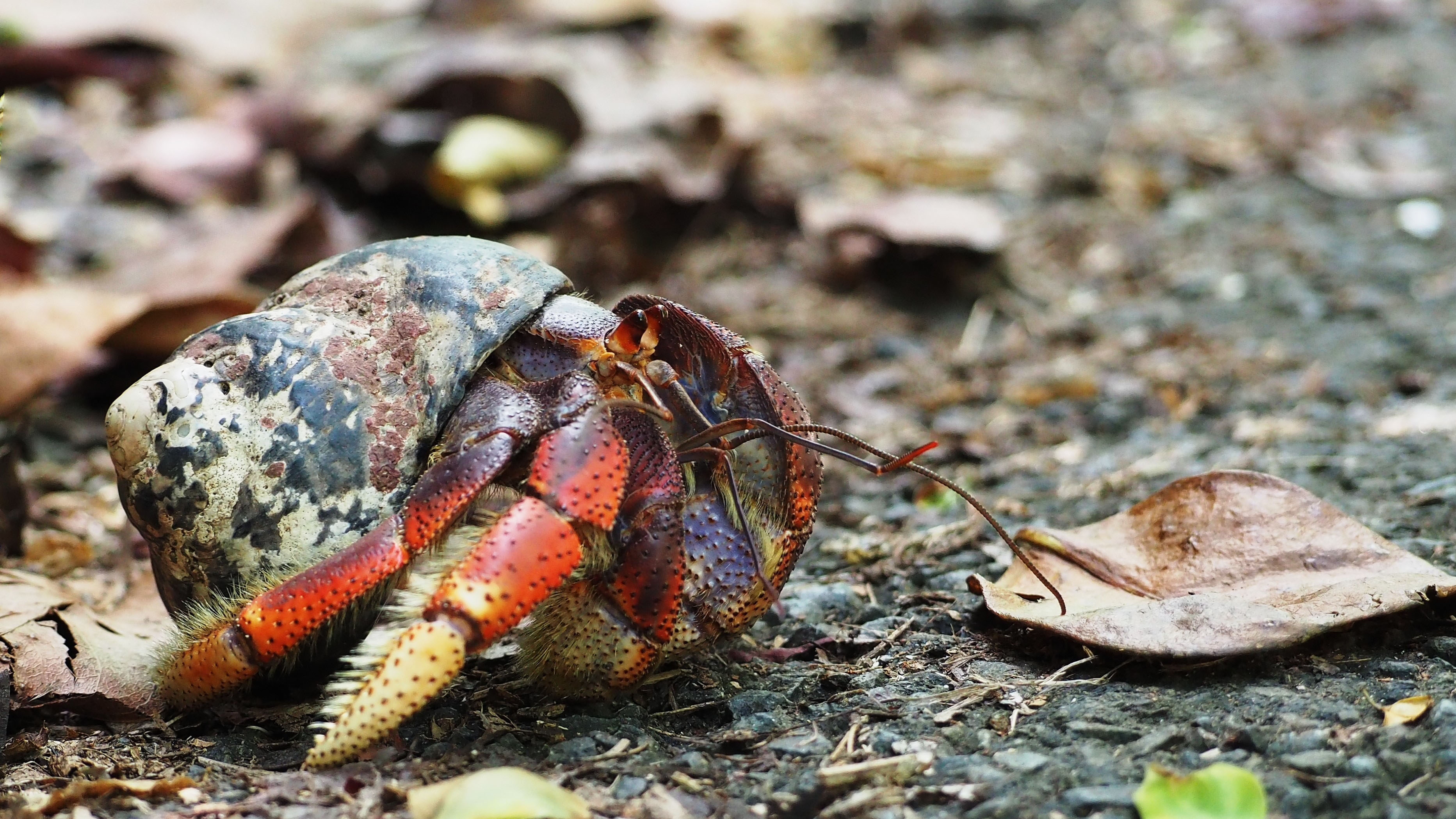 The hermit crab is one of the rare crustaceans to live most of its life on dry land. We find it all over the world. He was photographed here on the peninsula of Caravelle, in Martinique where he is very current. near beaches, in the mangrove, in the countryside sometimes. He is born as a larva in the sea, and adapts to live on earth. But if the front of his body has a carapace similar to that of crabs, the back is soft. He must live in an empty shell that he finds on the beach and change regularly according to its growth.